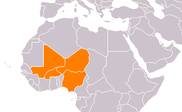 A map of the nations affected by the w:2009 West African meningitis outbreak